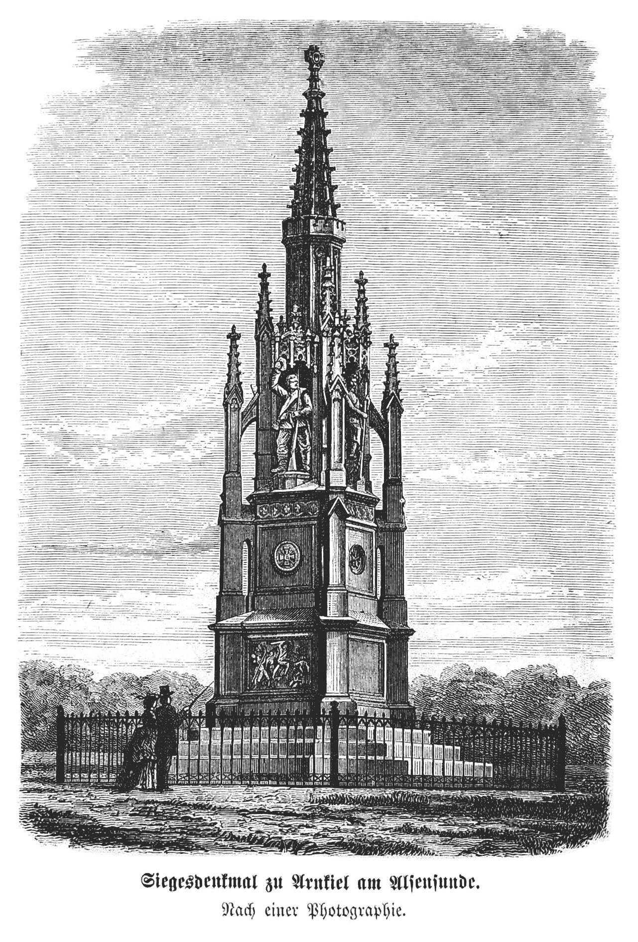 Image from page 729 of book Die Gartenlaube, 1872.